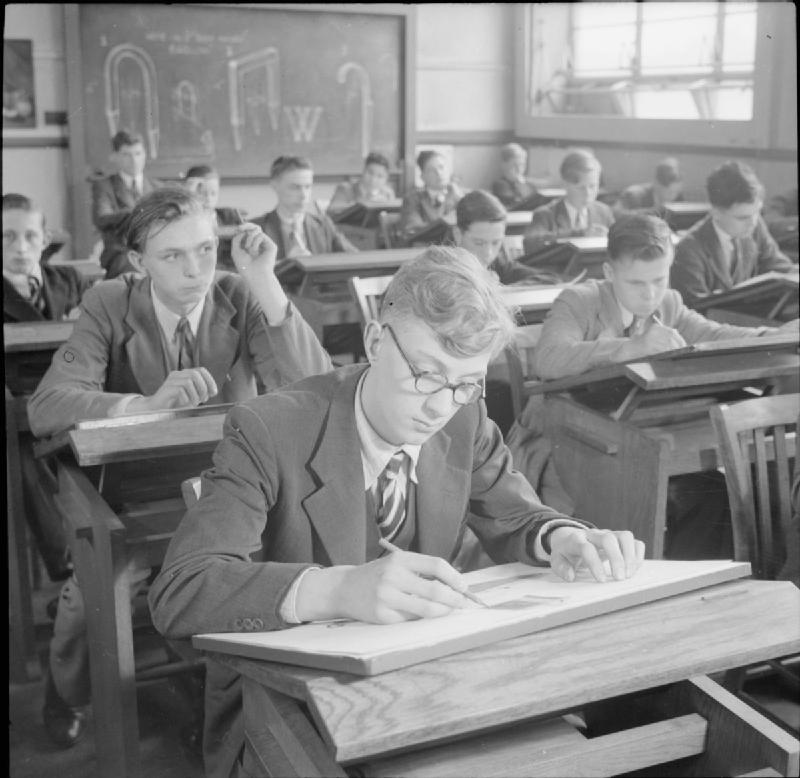 Technical School- Training at Tottenham Polytechnic, Middlesex, England, UK, 1944 Boys concentrate on their work during a lesson in technical drawing at Tottenham Polytechnic.